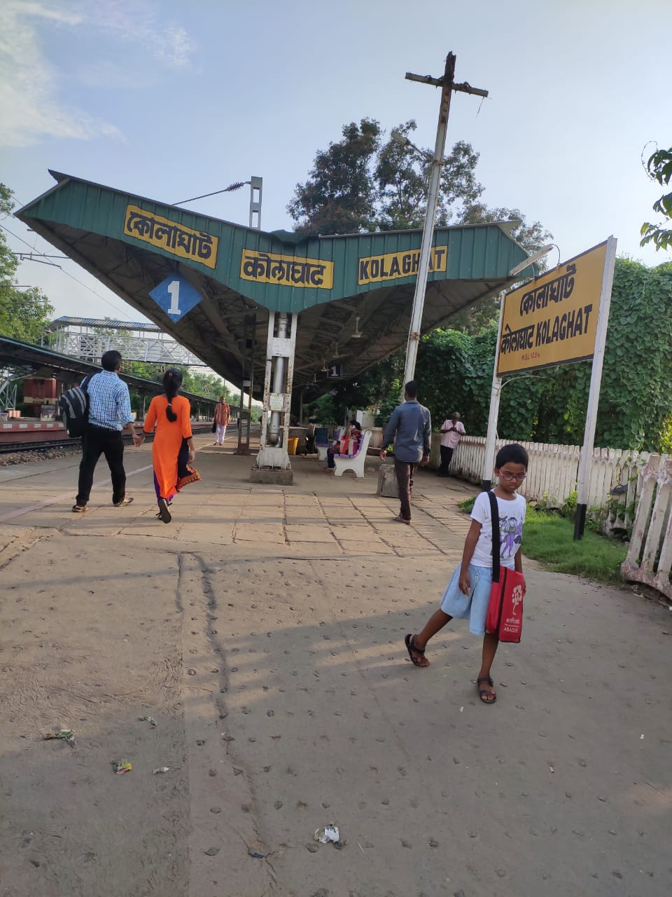 Station